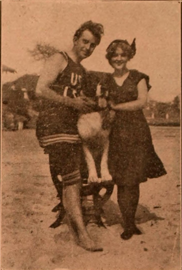 An advertising still for Mistress and Maid by the Thanhouser Company. Released in 1910.